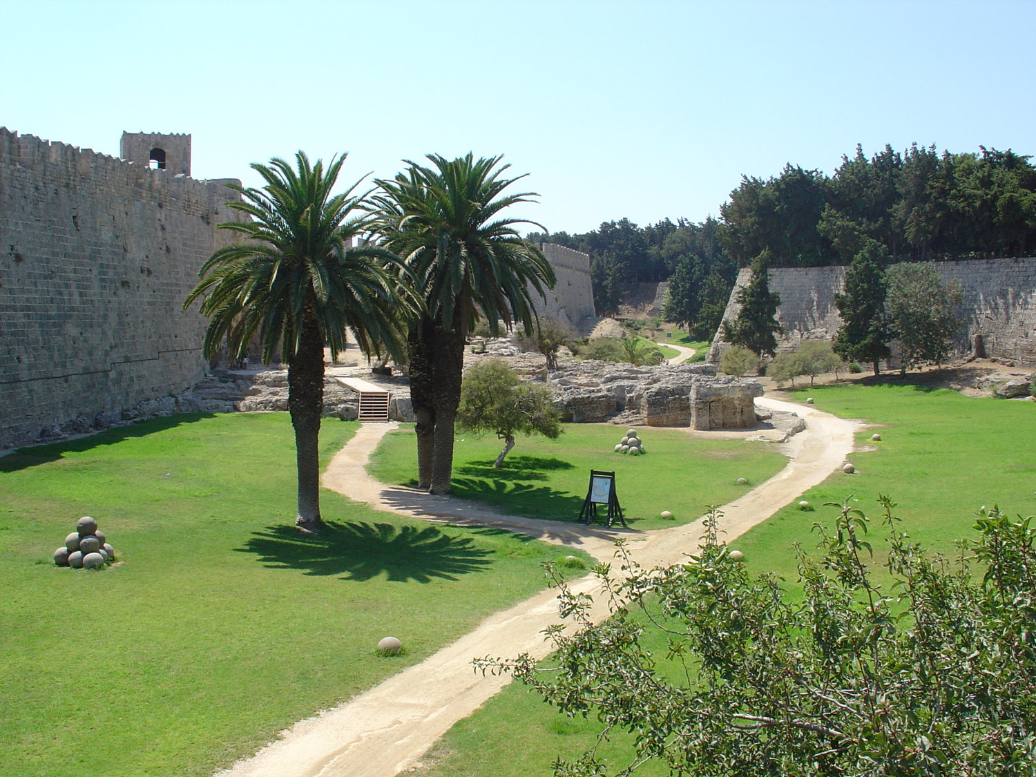 Fortification in old town of Rhodes (on Greece island Rhodes) Opevnění města Rhodos na řeckém ostrově Rhodos photo August 2007 Author= Karelj